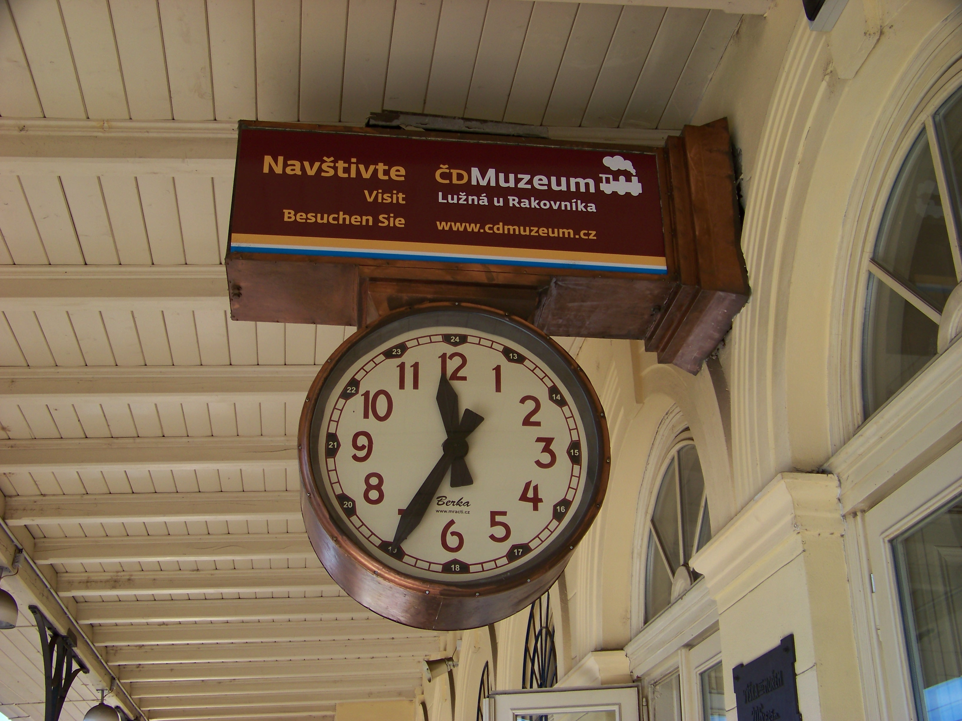 Prague-Vršovice, the Czech Republic. Ukrajinská 304/2b, Praha-Vršovice train station building, a clock.